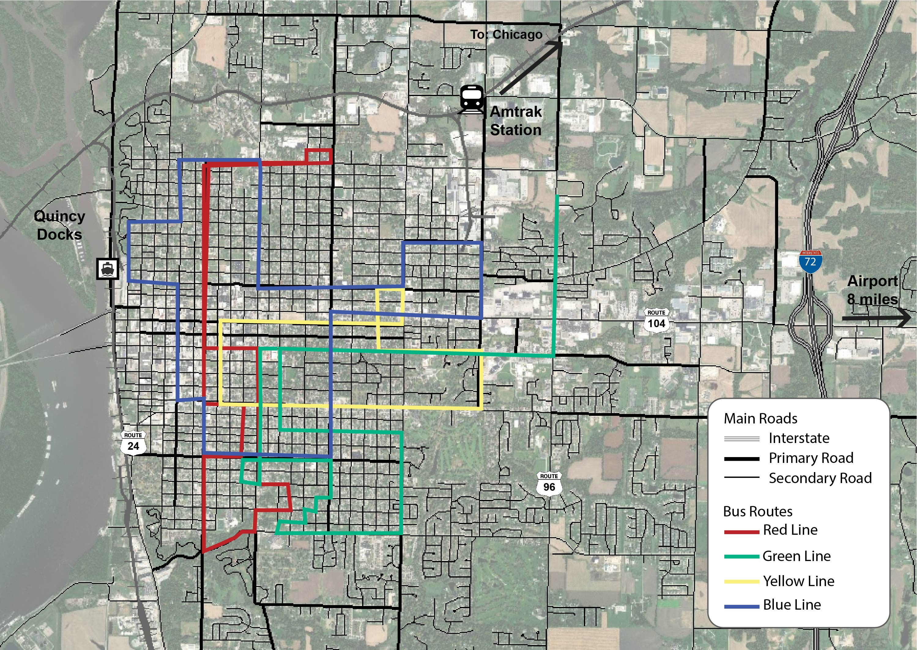 Illustration of Quincy's Transportation Facilities